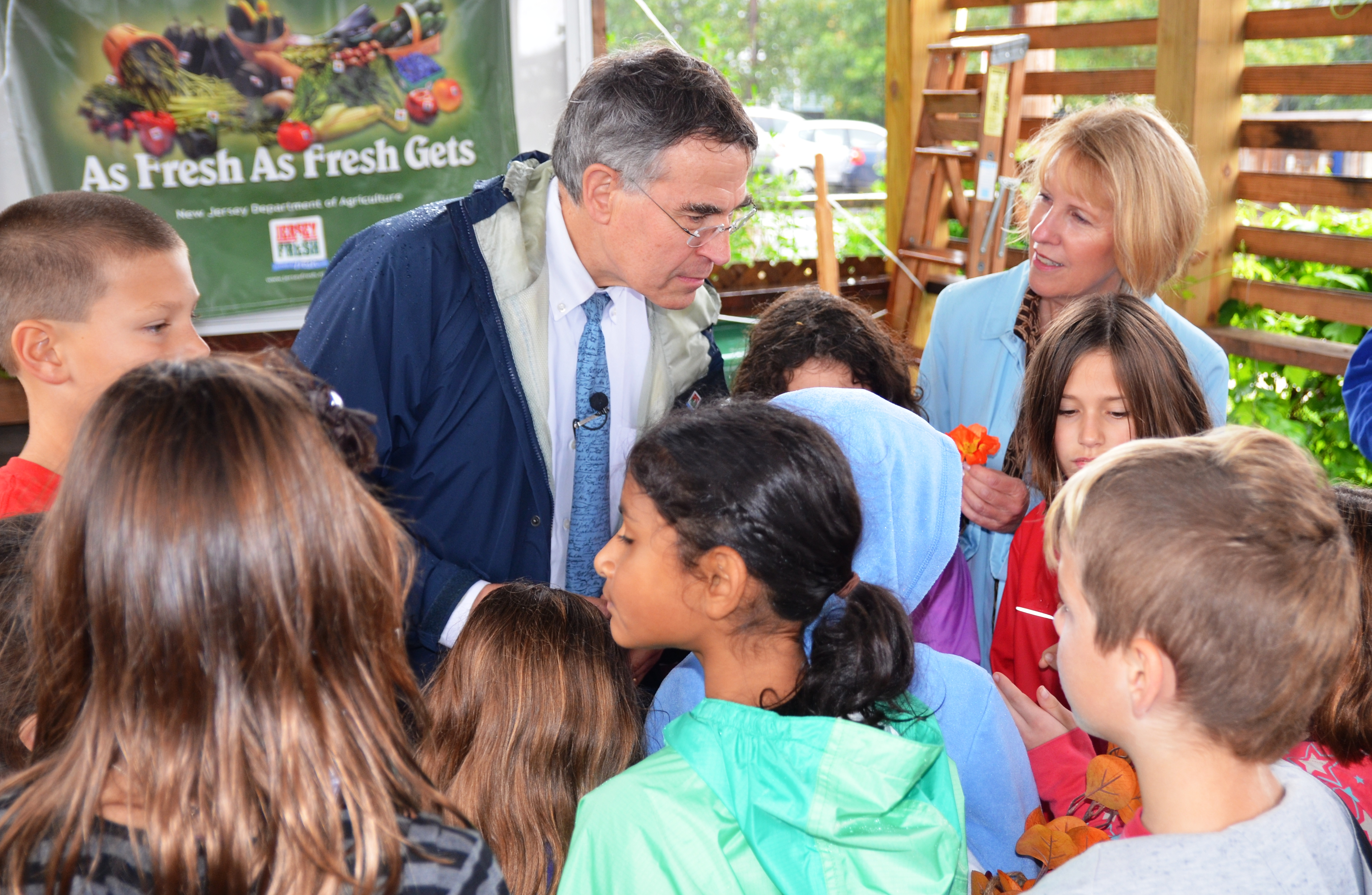 U. S. Representative Rush Holt (left) and USDA Food and Nutrition Service Mid-Atlantic Regional Administrator Pat Dombroski mingle with proud children showing off their school garden before tasting an eatable flower grown just a few feet away.